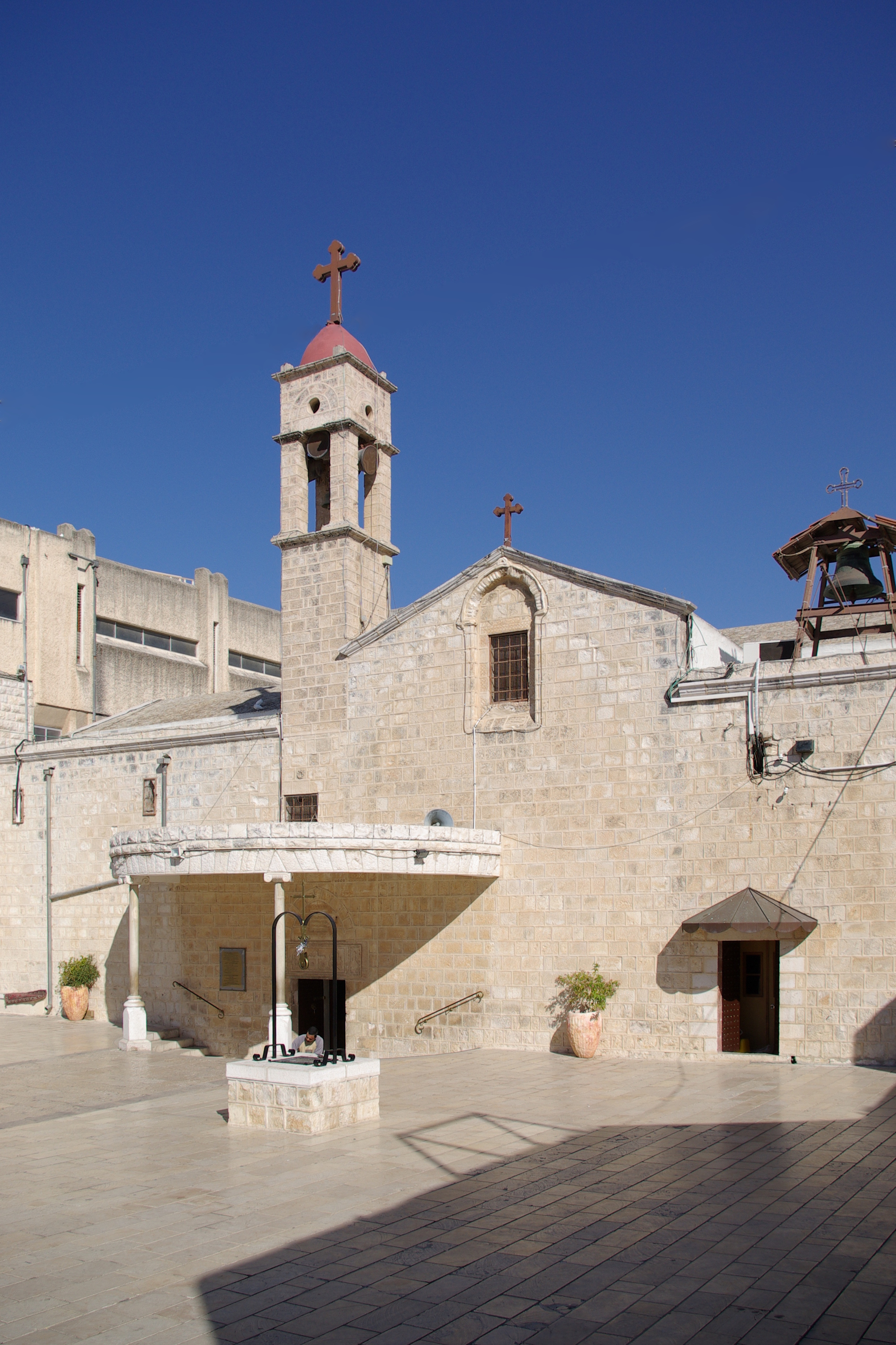 St. Gabriel's Greek Orthodox Church in Nazareth